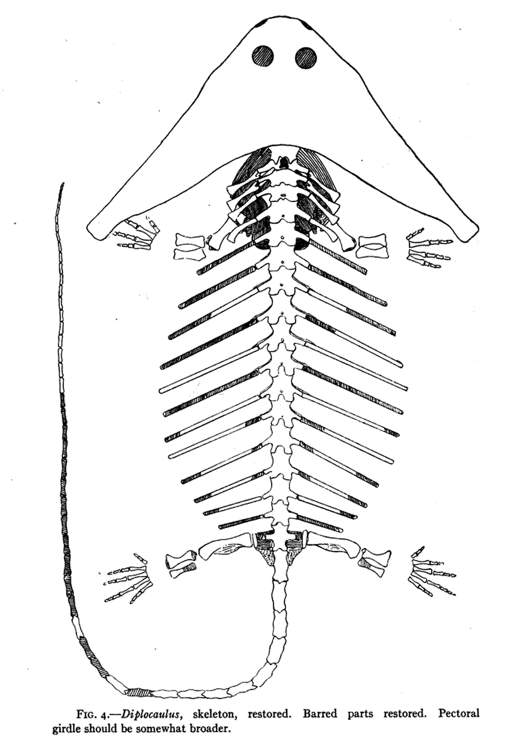 Figure 4-Diplocaulus, skeleton, restored. Barred parts restored. Pectoral girdle should be somewhat broader.